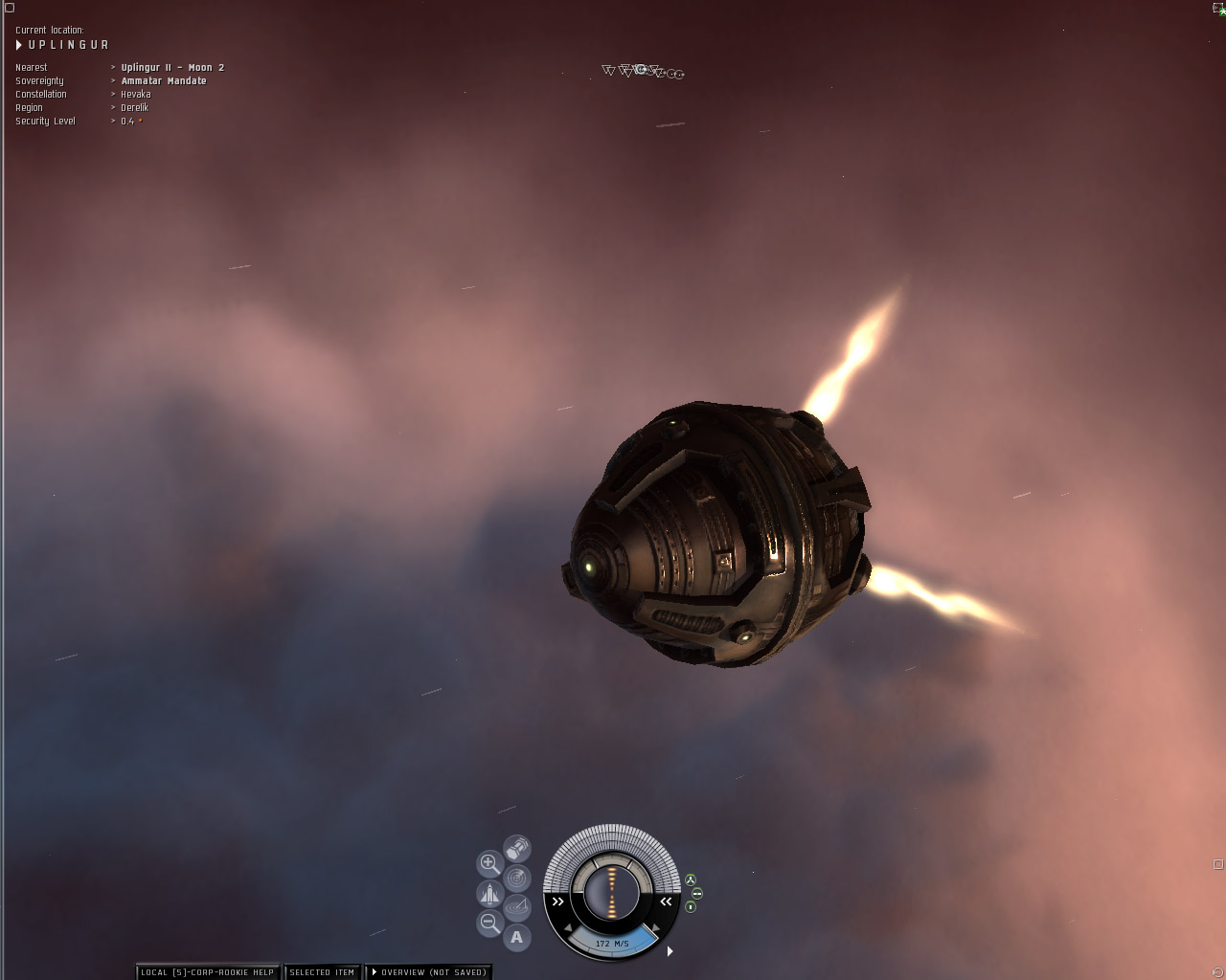 A pod in space shortly after having been ejected from a ship.